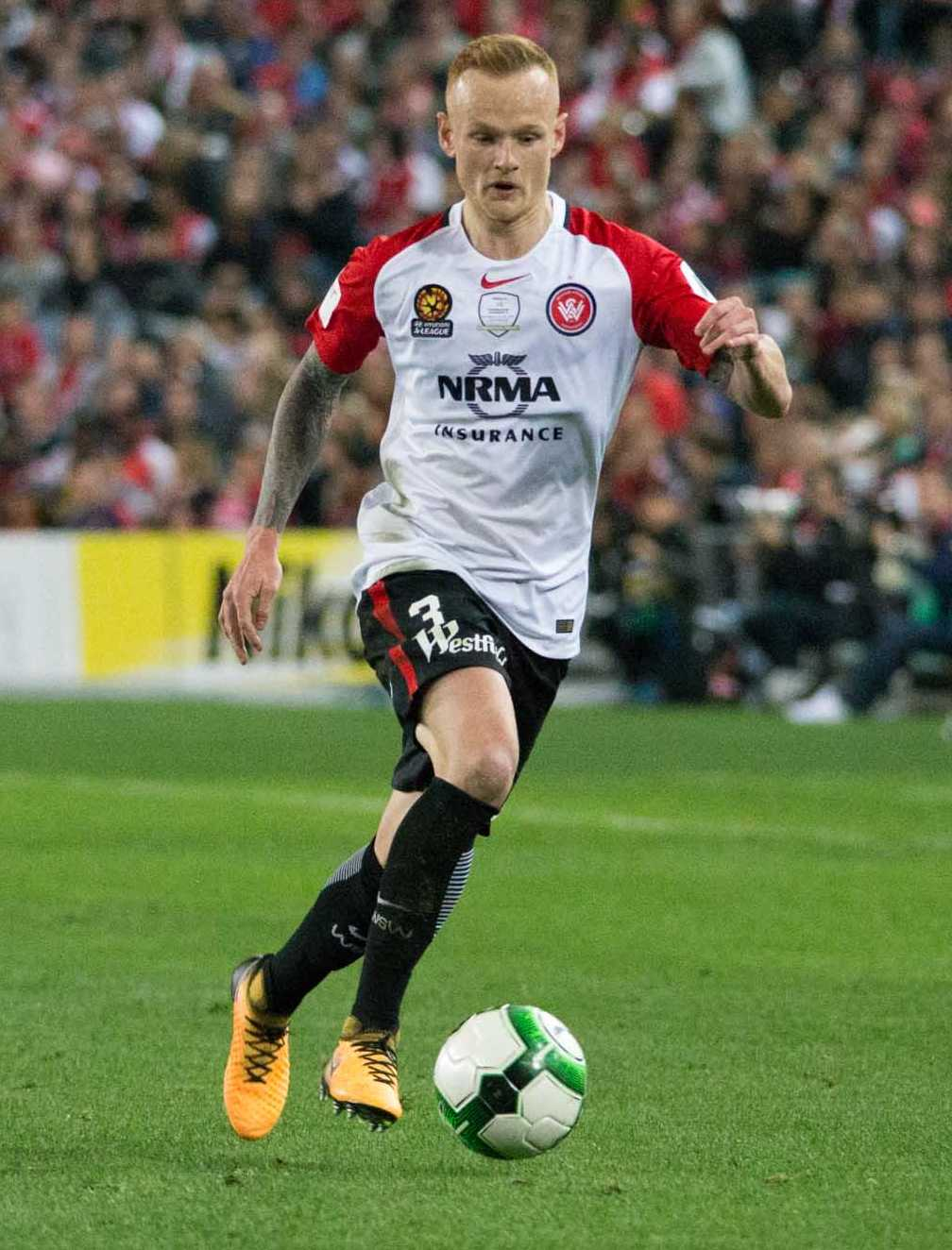 Jack Clisby playing for Western Sydney Wanderers v Arsenal 15 July 2017